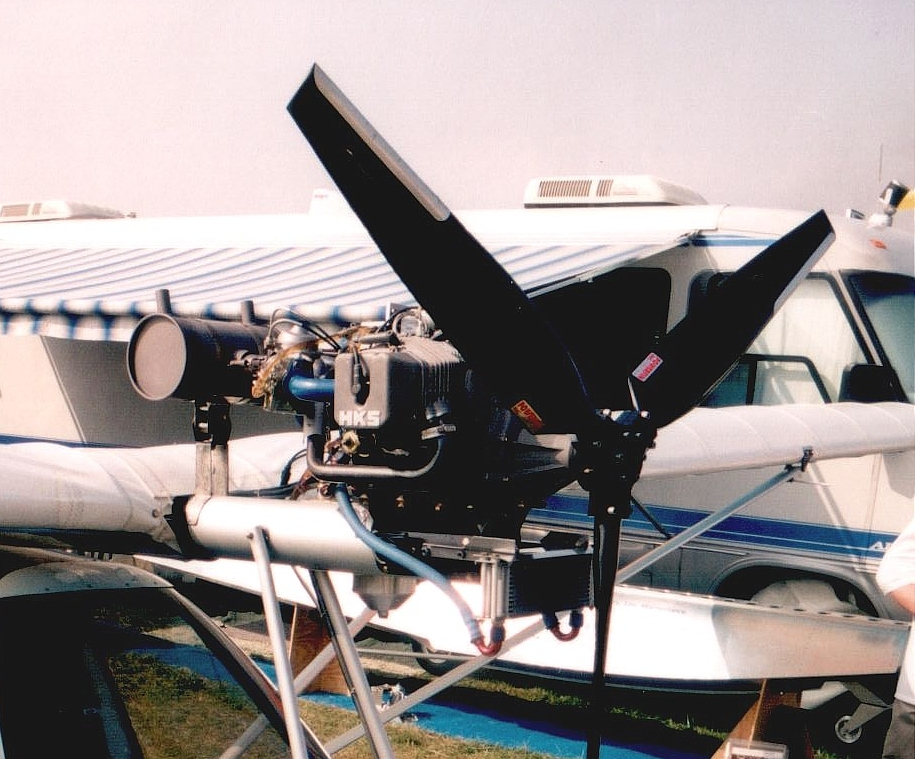 An HKS 700E four stroke aircraft engine, mounted on a Flightstar II ultralight at Oshkosh 2001